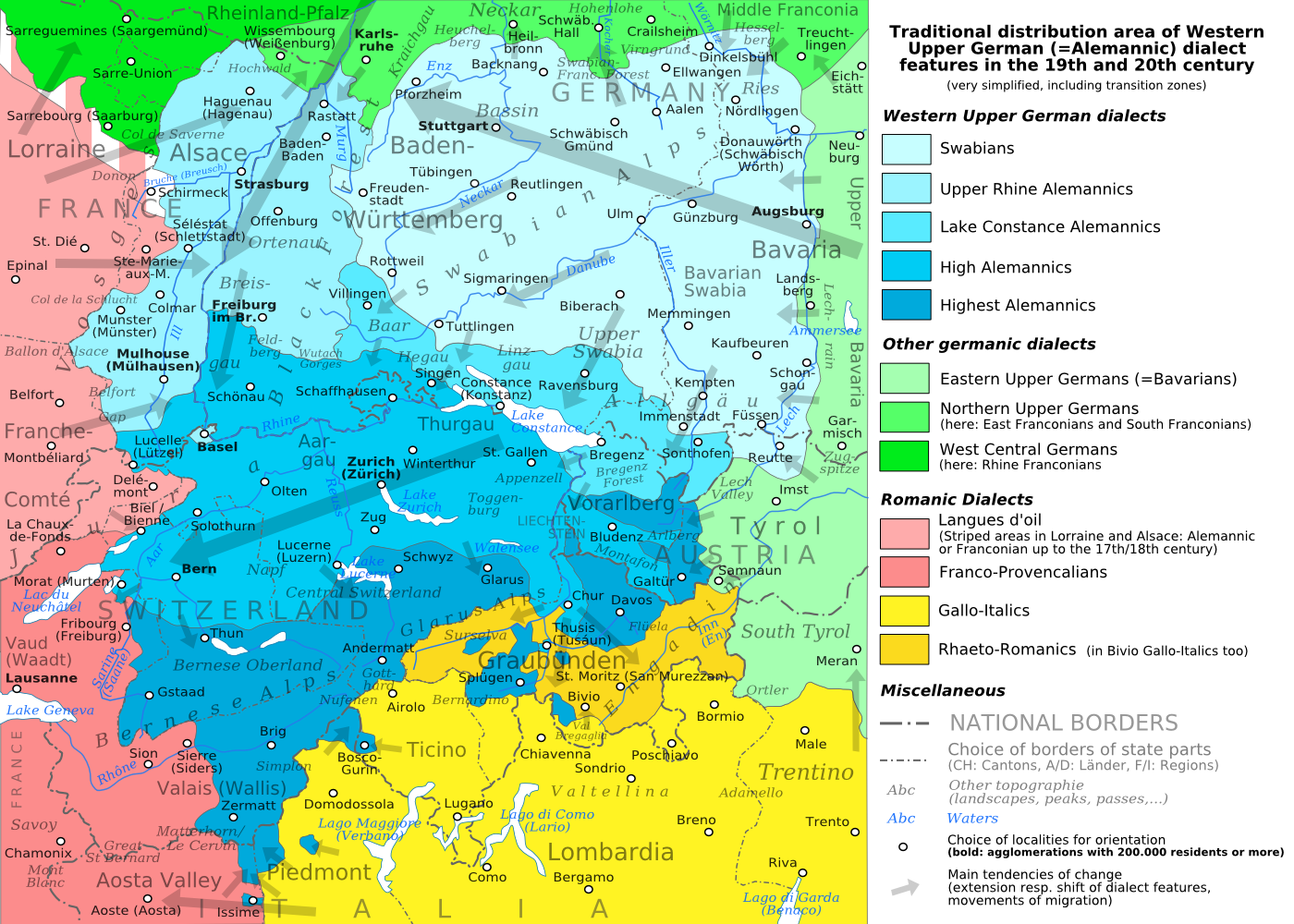 The traditional distribution area of the western upper German (=alemannic) dialects in the 19th and 20th century. Source: Mainly these articles in the German wikipedia: * Alemannische Dialekte * Grenzorte des alemannischen Dialektraums * Traditionell rätoromanischsprachiges Gebiet Graubündens and * Sprachen und Dialekte in der Region Elsass, plus the (newer) literature, which is mentioned there. This area, having been quite stable for at least some 300 years up to the 19th century, saw consecutively more or less strong changes by industrialisation, population growth, migrations and political developments.